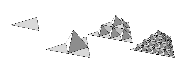 First stages of Koch (triangle) surface